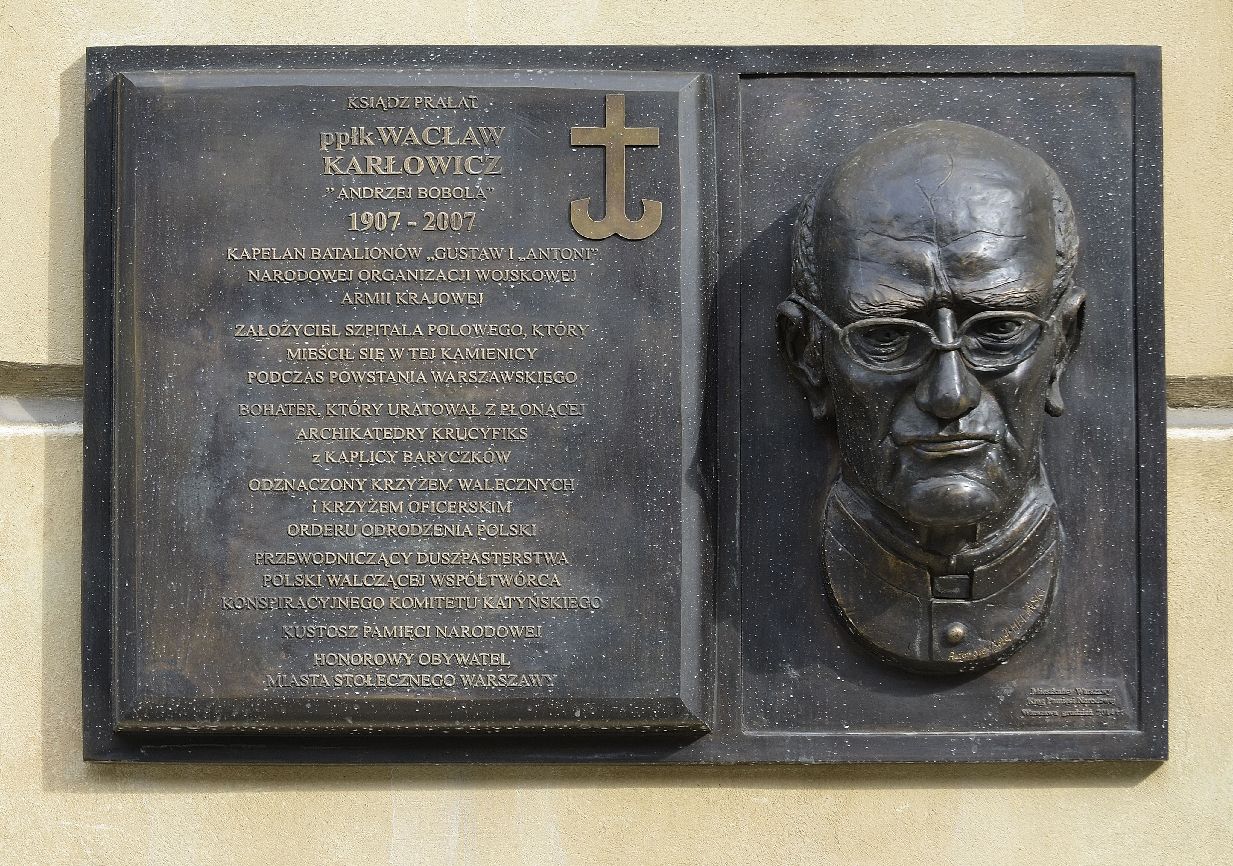 Plaque in memory of Wacław Karłowicz on the facade of Raczyński Palace in Warsaw